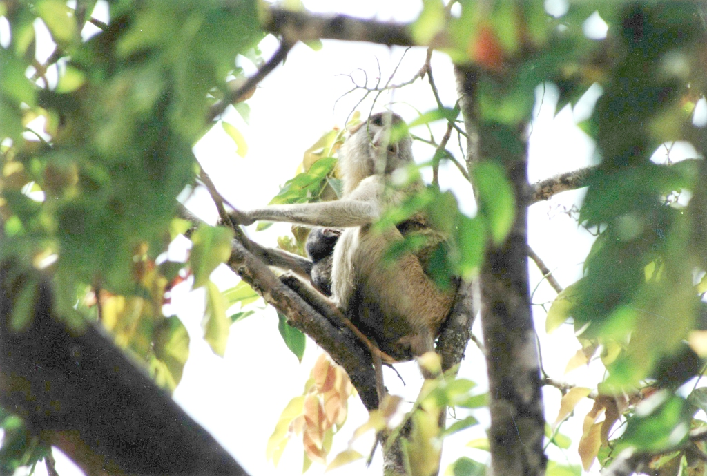 Affenmutter (Mole-Nationalpark), Ghana